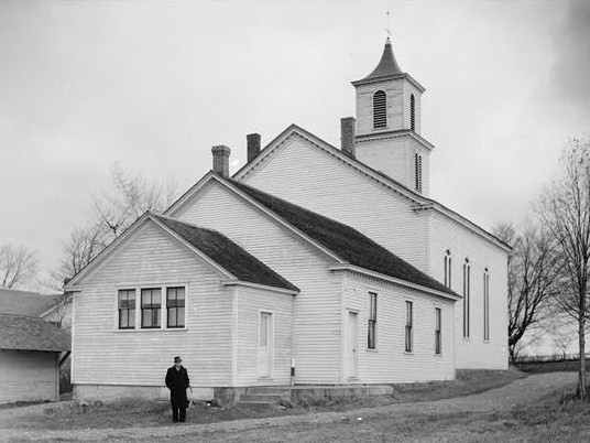 Trinity Lutheran Church, State Route 10, Stone Arabia (Montgomery County, New York) cropped